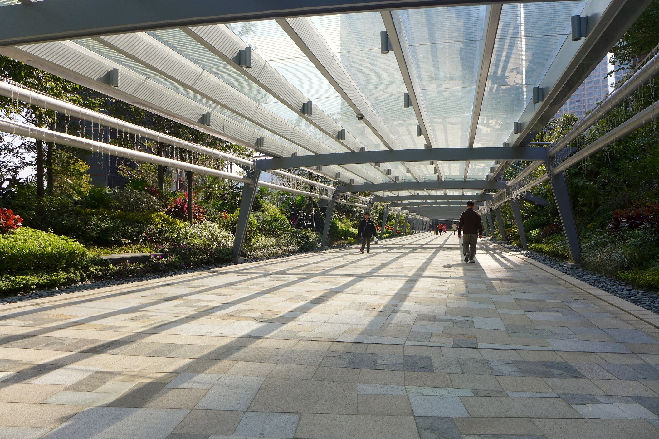 Double Cove Covered Public Walkway